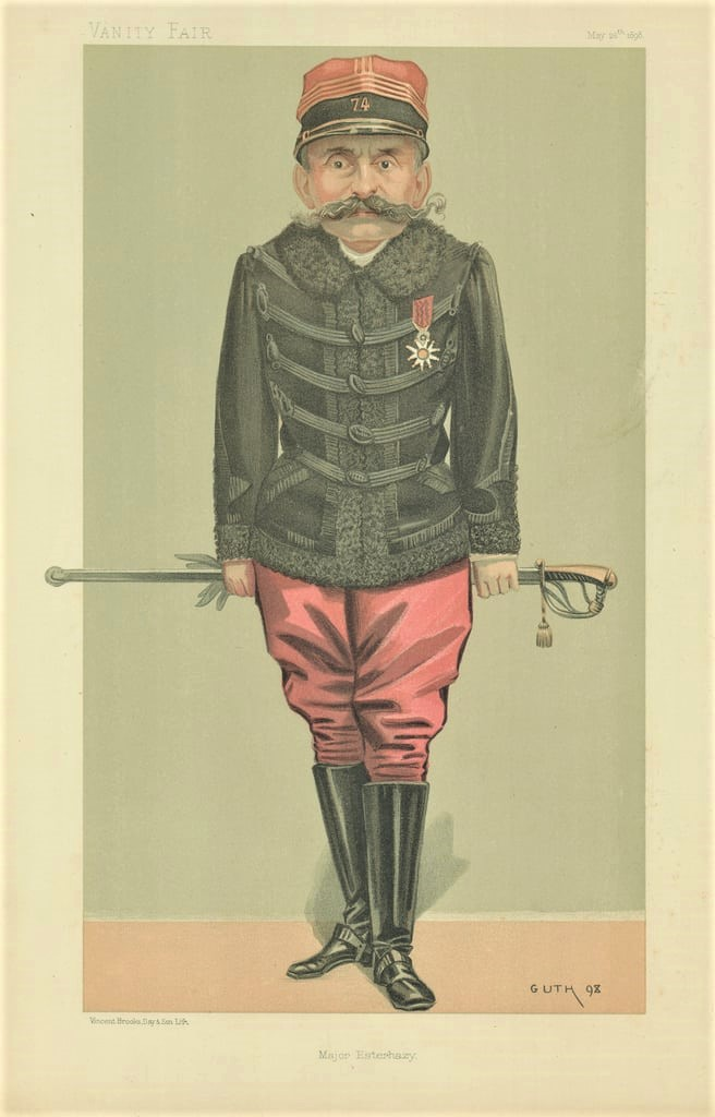 Caricature of Major Ferdinand Walsin Esterhazy. Accompanying biographical note in Vanity Fair read "He has quite recently acquired a quite sudden notoriety by implication in L'Affaire Dreyfus: of which, perhaps, more will be heard.... He has been heard to say that he does not love Zola. He is a spare, nervous, well-hated man, with a drooping nose; whose face and swarthy complexion betray his race".